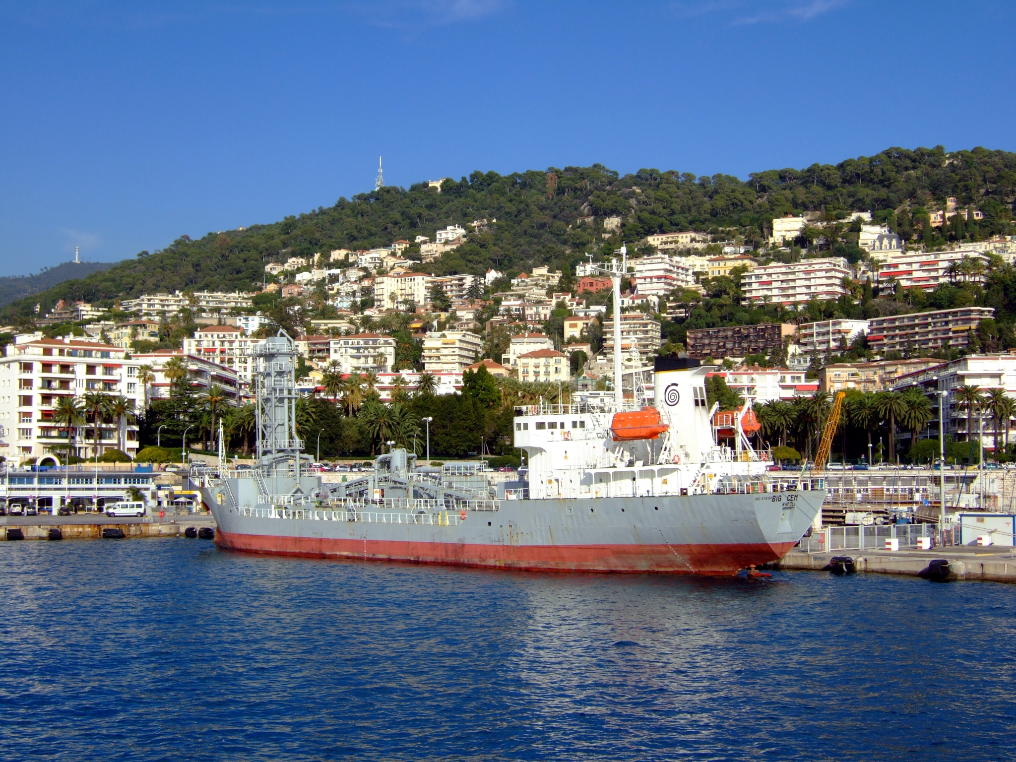 Cement tanker Big Cem loading in the Nice port, France. IMO Number: 8118190 MMSI Number: 247145900 Callsign: IBXO Length: 97 m Beam: 16 m